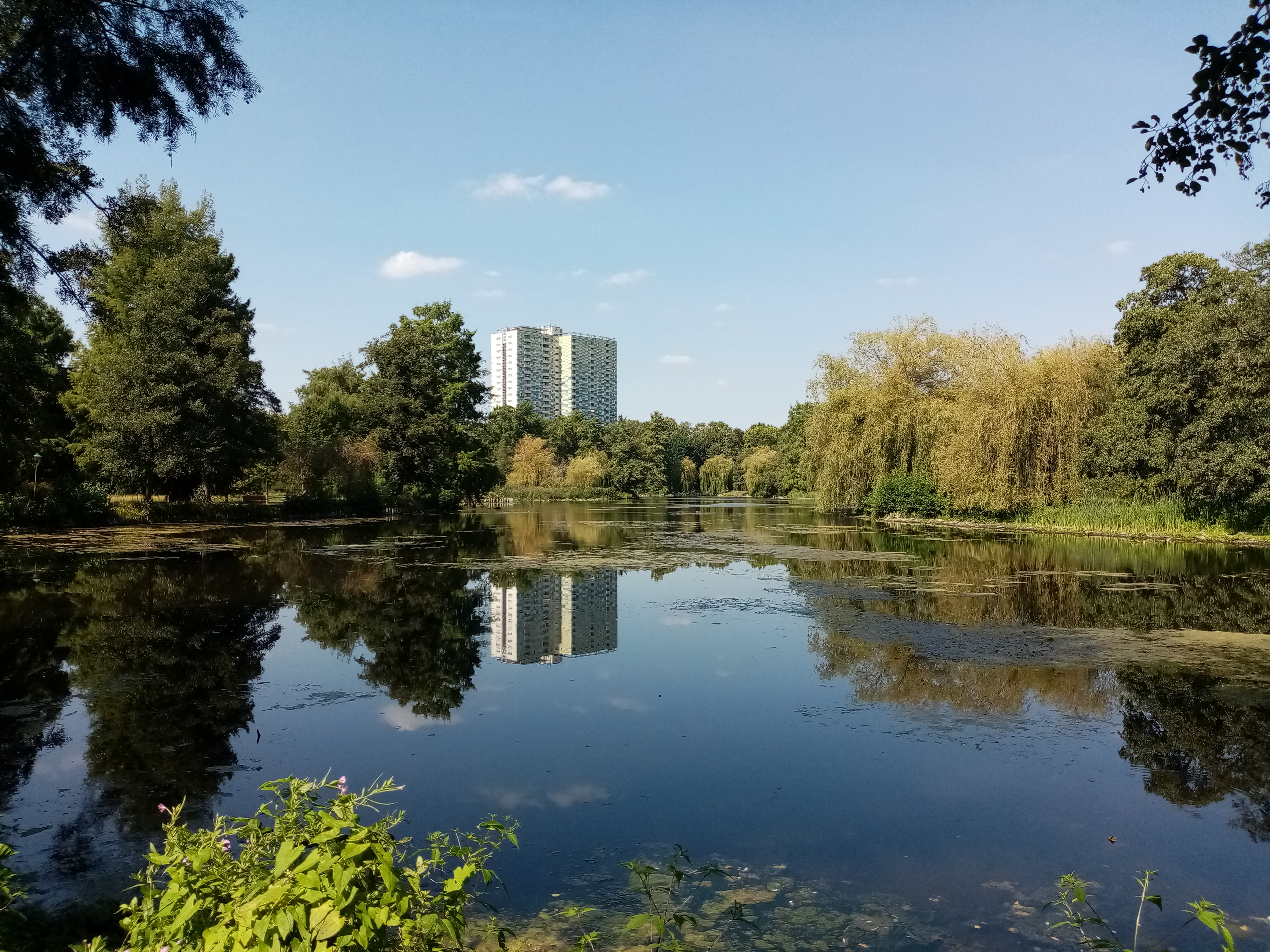 Längsblick über den Teich im Südpark Spandau in Berlin